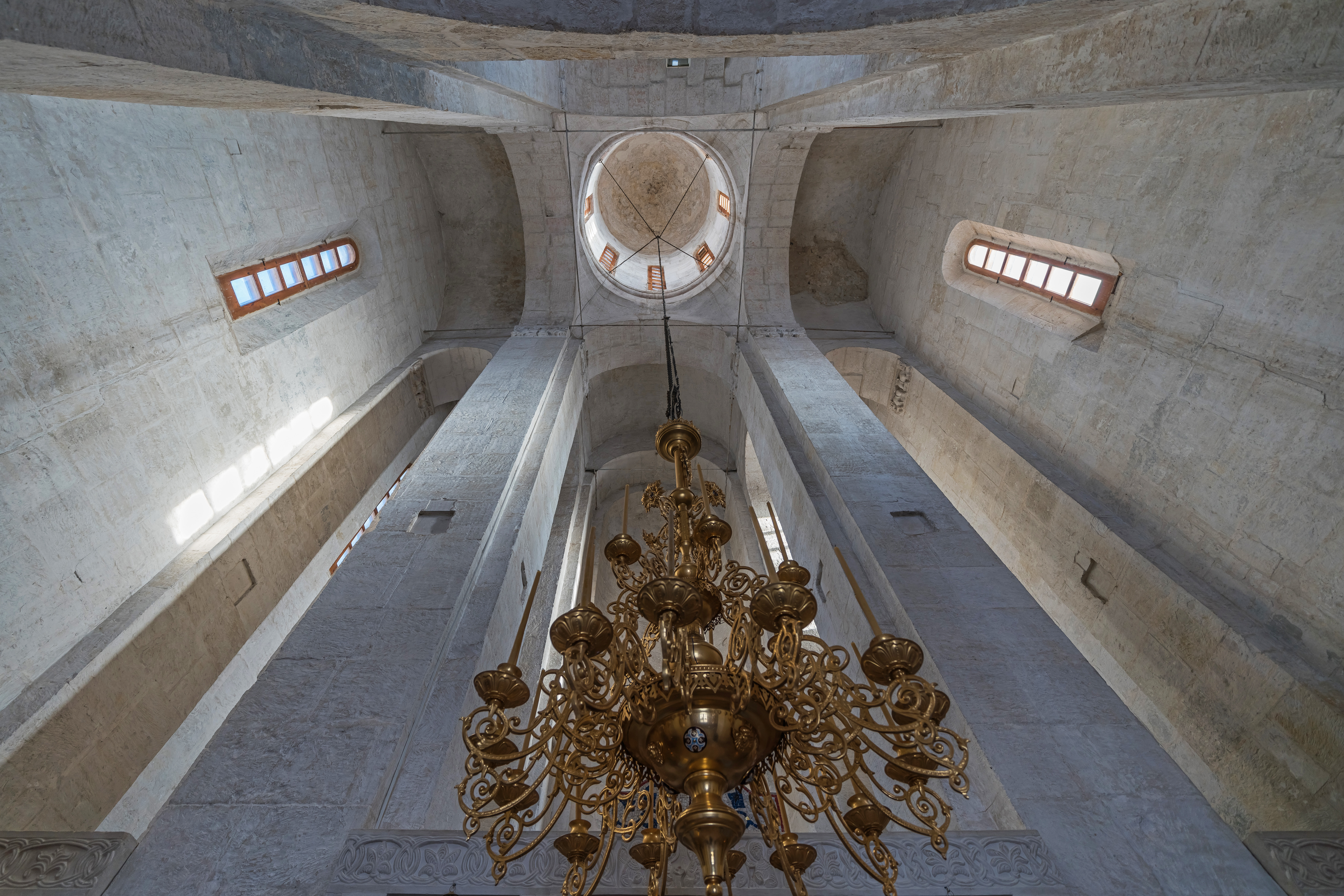 Intercession Church on the Nerl in Bogolyubovo near Vladimir, Russia